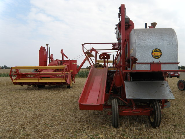 Two Massey Harris 21 combines, Little Casterton, Rutland, Great Britain. To see one classic combine in working order is something. At the Little Casterton working weekend there were three of the same make and age (1945). These two, one is a bagger, meaning that the threshed corn is put in sacks that are slid to the ground down the chute in the middle of the photo. The machine behind is a tanker model where by the threshed corn is augered into a trailer for bulk handling.